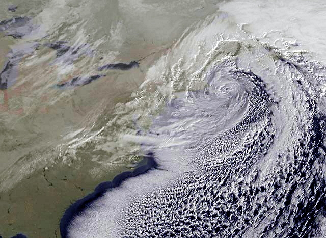 Visible satellite imagery of the December 2010 North American Superstorm (a.k.a the December 2010 North American blizzard), at peak intensity off the coast of Cape Cod, Massashusettes, showing an eye-like feature typical of nor'easters. The storm is a nor'easter on December 27, at the time that this picture was taken. The system later went on to become Windstorm Benjamin in Europe, before it finally dissipated on January 15. (The image has been slightly brightened to better reveal the details of the storm.)